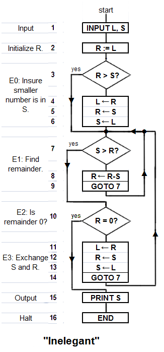 Knuth's version of Euclid's algorithm for calculating the greatest common divisor, translated almost verbatim from Knuth's description (E0 - E3) cf Knuth 1973:2-4.